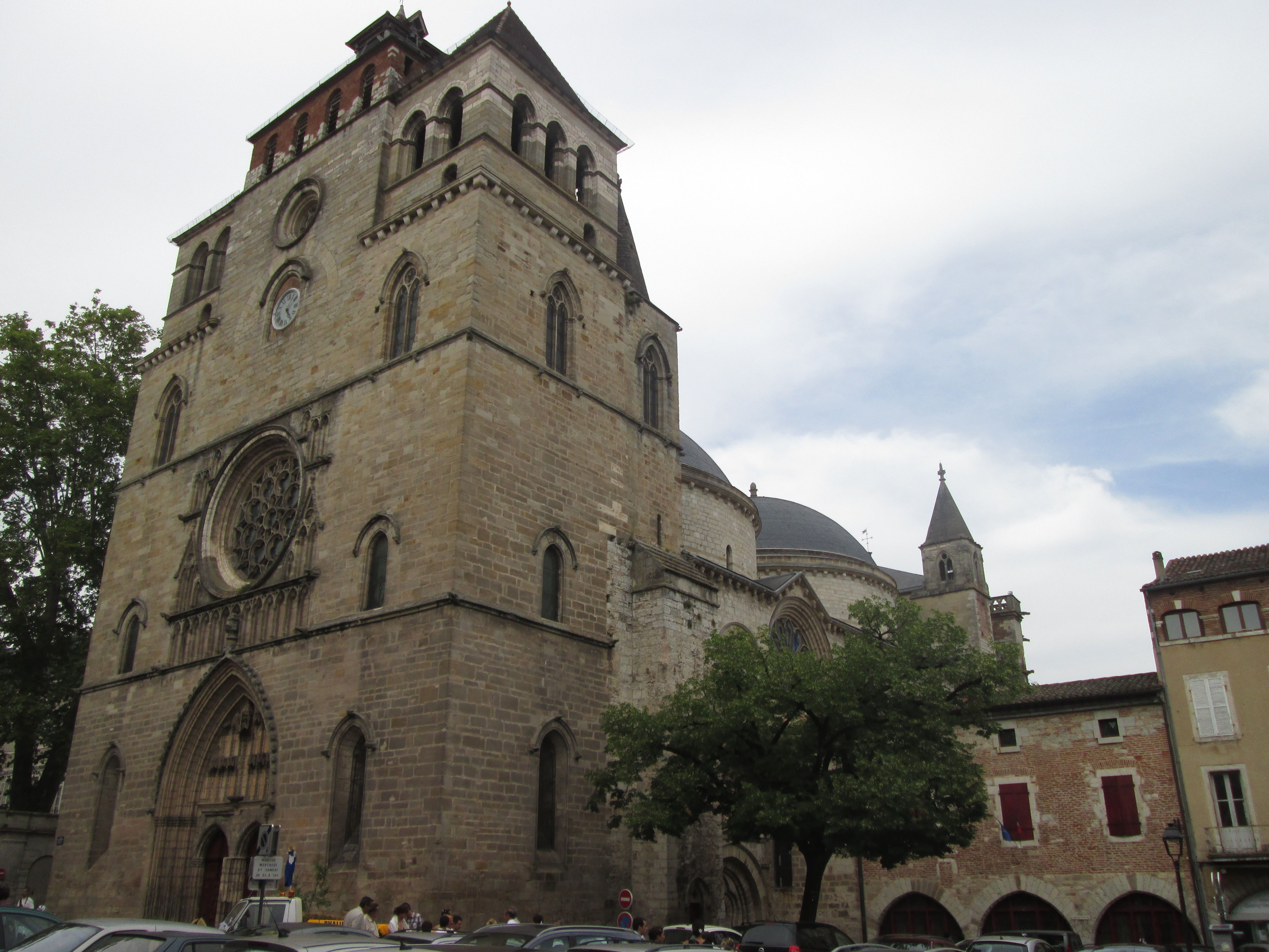 Cathédrale de Cahors vue de la façade